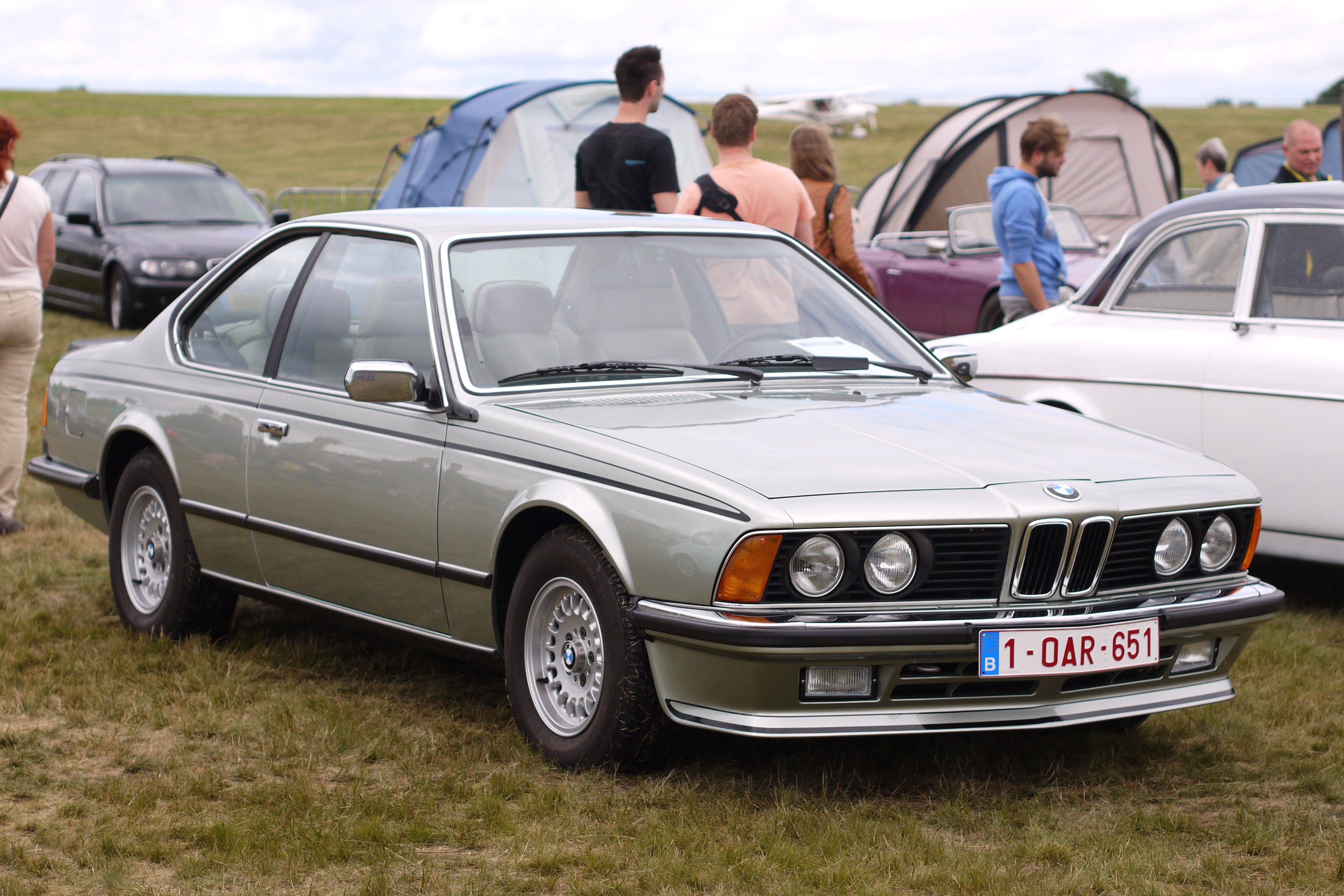 BMW E24, Schaffen Diest Fly-Drive 2013